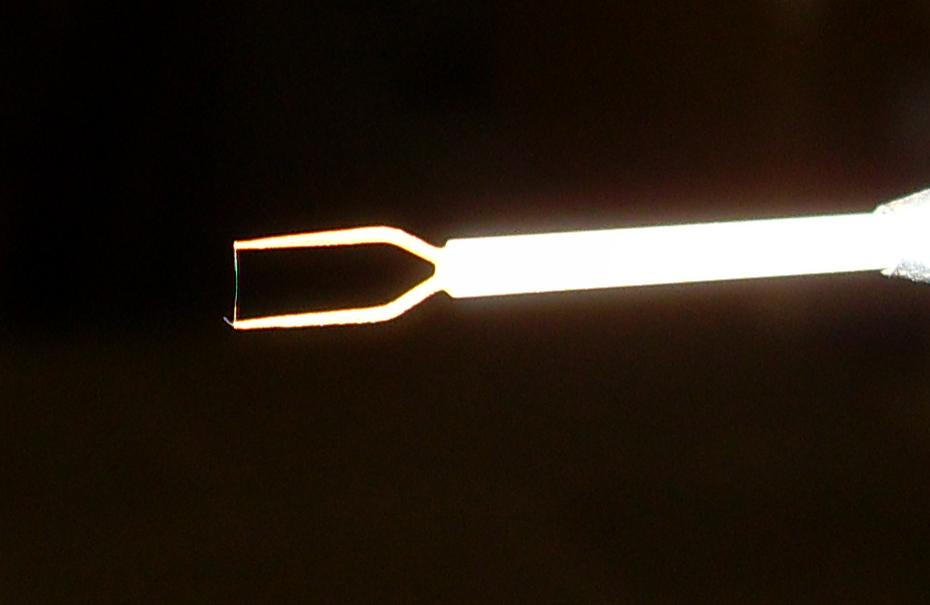 Hot wire anemometer probe